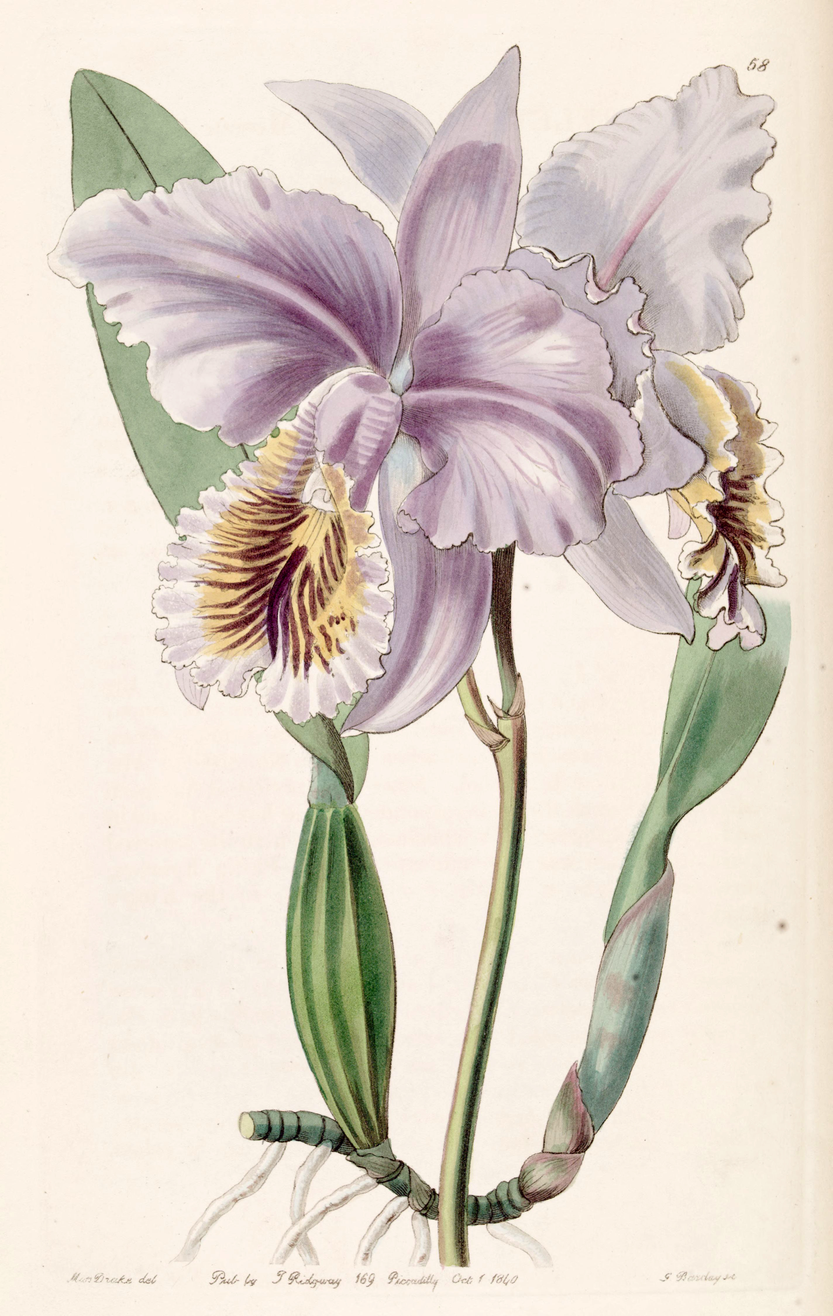 Cattleya mossiae (as syn. Cattleya labiata var. mossiae)